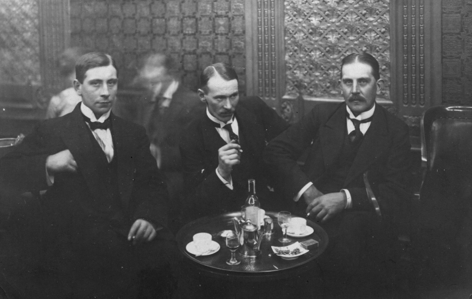 Three unidentified guests at "Fenixpalatset", a prominent restaurant, cabaret and place of entertainment in Stockholm, Sweden during the first part of the 20th century. The photo ("snabbfotografi" = quick photo) is a souvenier offered to the guests and printed on a postcard.